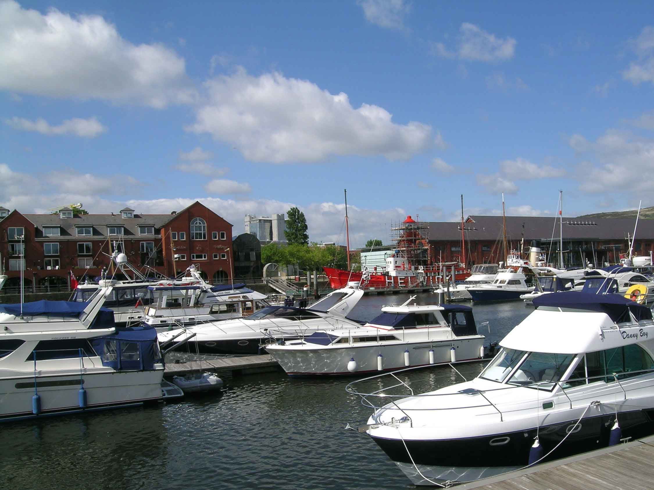 Swansea marina